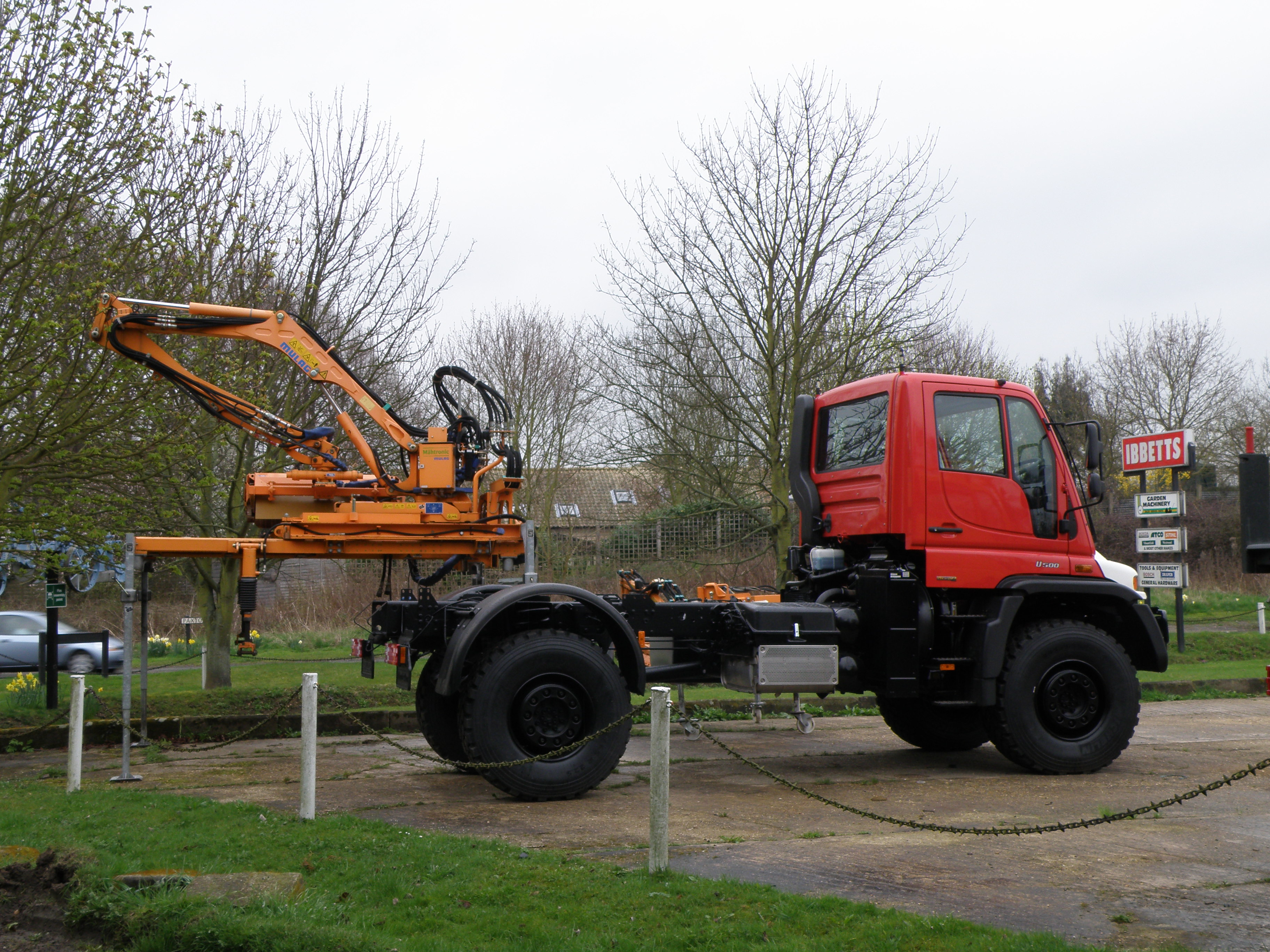 A brand new Unimog U500 (type 405/UGN) awaiting a customer at Ibbetts agricultural machinery dealership in Great Paxton. The German built machines were popular with farm contractors for crop spraying but when the new kid on the block arrived in the form of the JCB Fastrack sales of Unimogs declined. The current machines have been redesigned and are popular with utility companies for all manner of off and on road operations. The machine behind is a flail hedge and verge trimmer mounted on a sub frame that is designed to fit on Unimogs